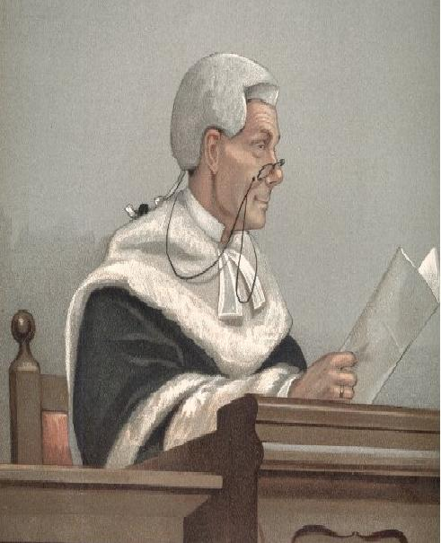 Caricature of Thomas Townsend Bucknill. Caption read "Tommy".